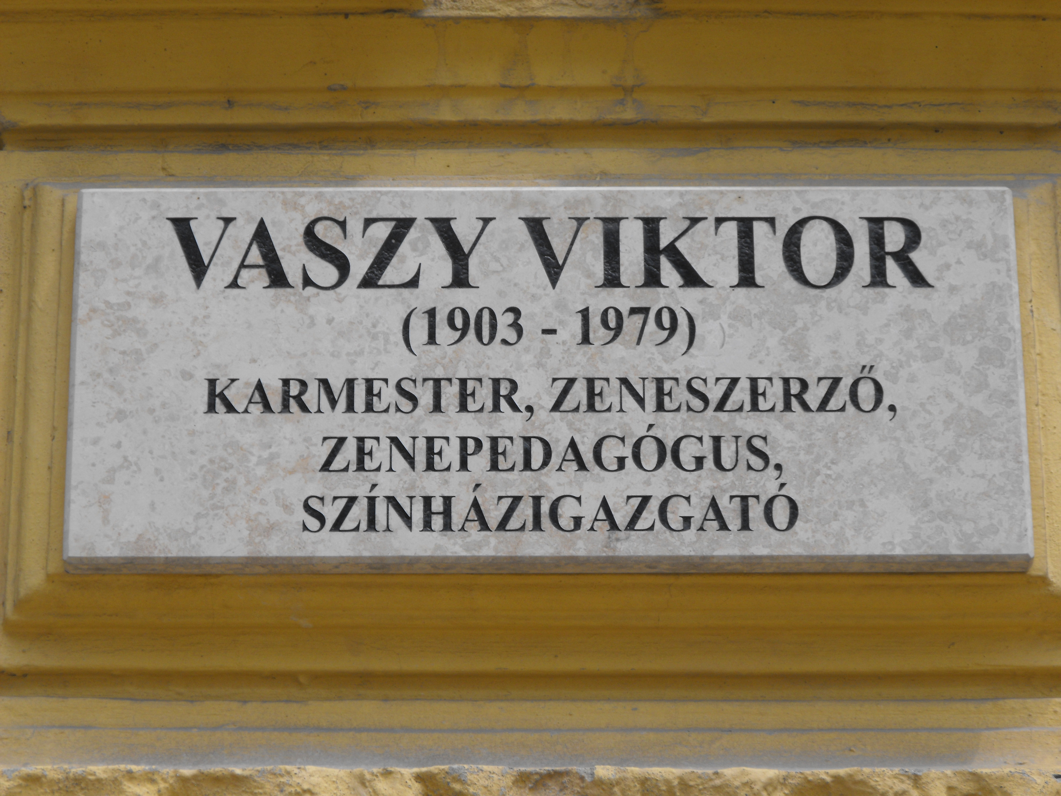 Memorial tablet of Viktor Vaszy, conductor and composer in Szeged, Hungary.